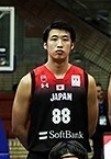 Japan National Basketball Team